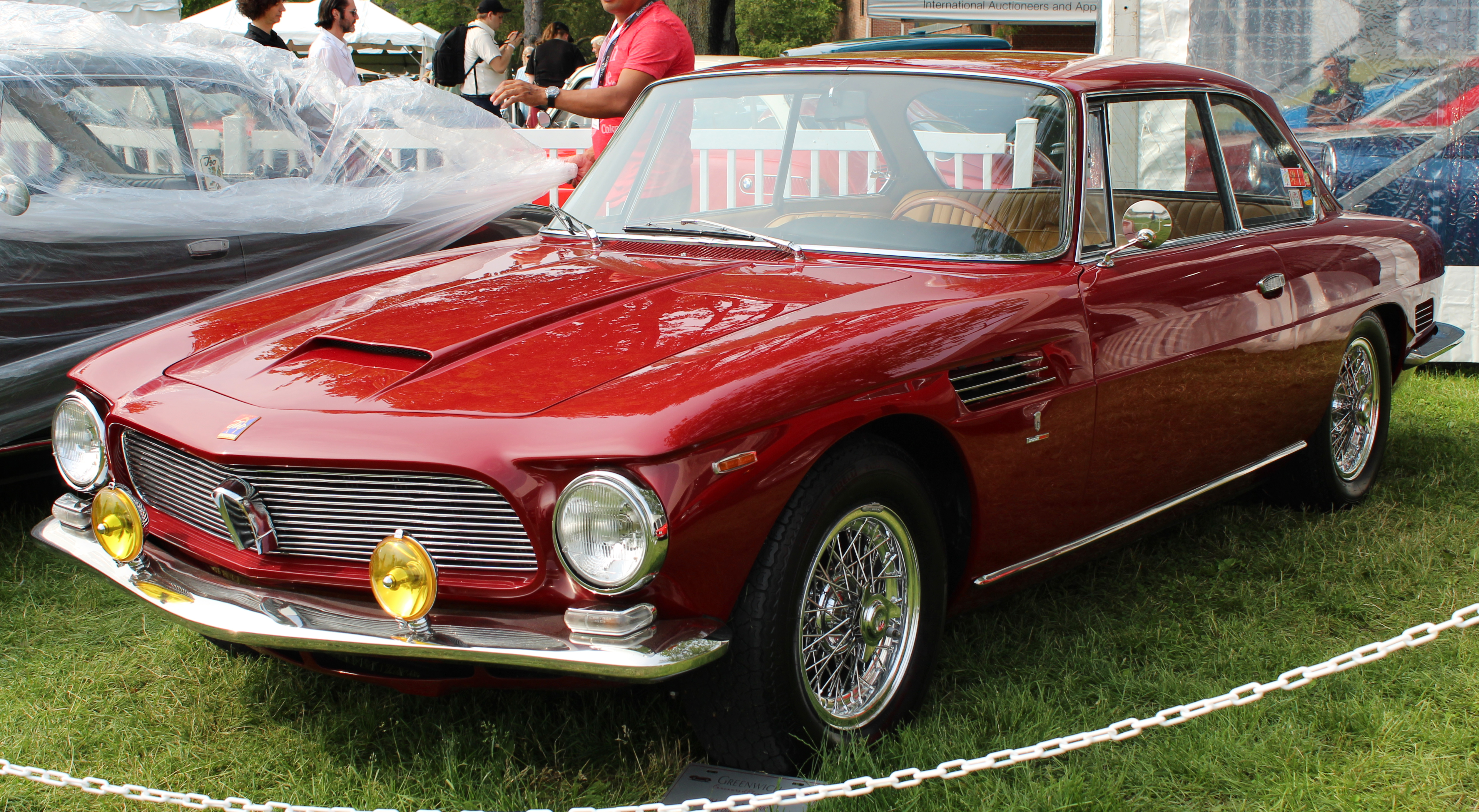 A 1964 Iso Rivolta 300 photographed during the 2019 Greenwich Concours d'Elégance, Connecticut, USA